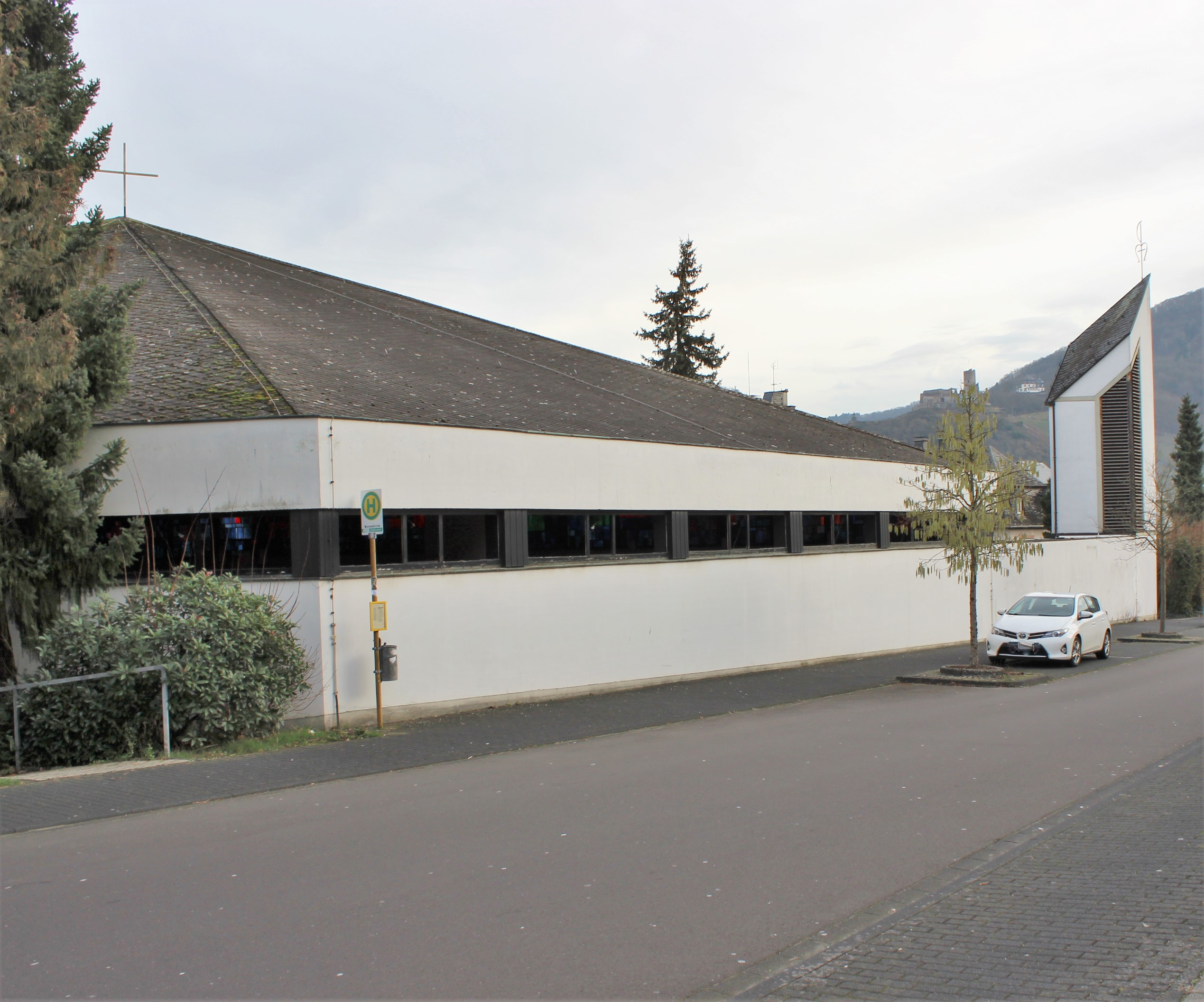 Former church of St. Mary's in Bernkastel-Kues (Germany)